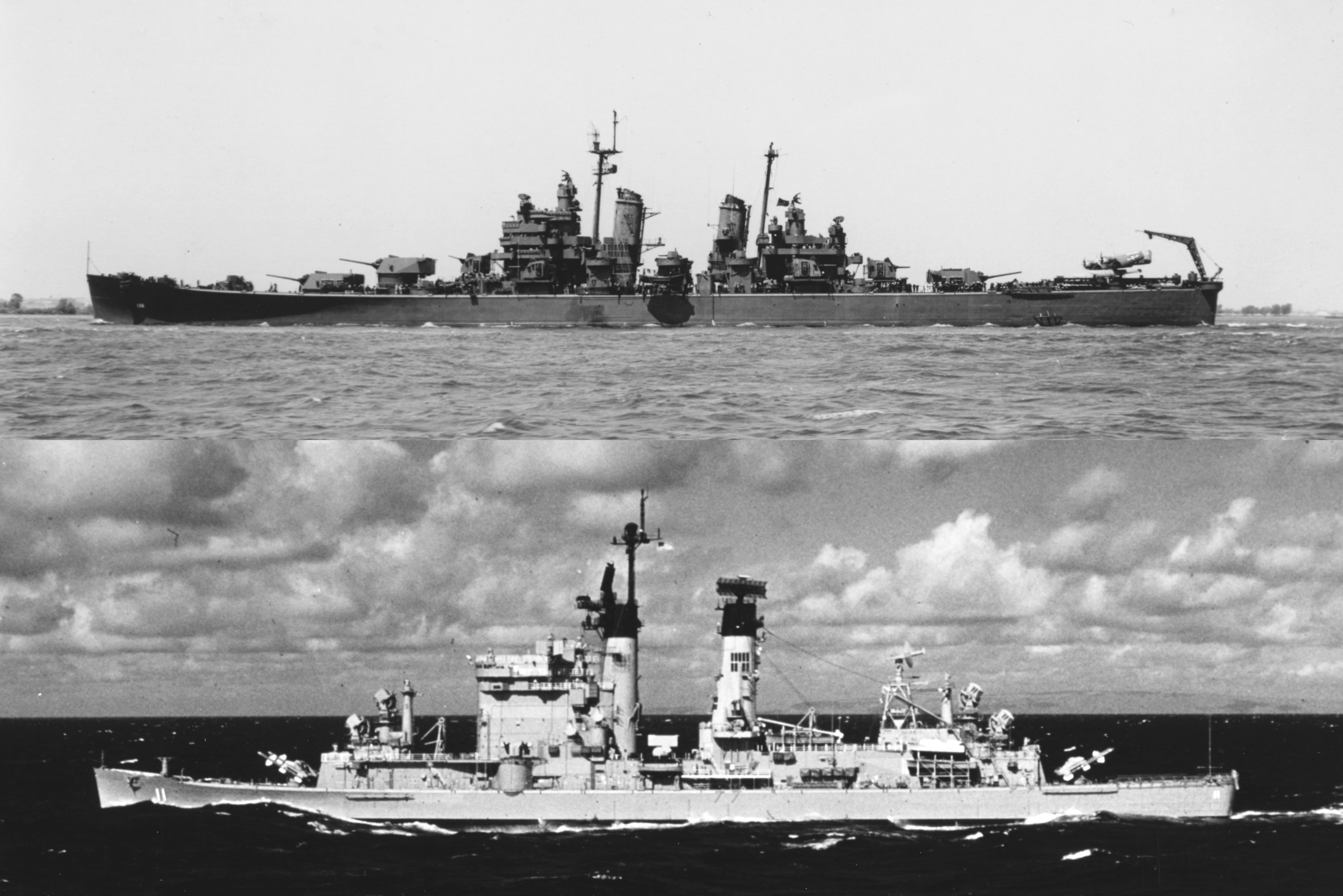 Two views of the U.S. Navy cruiser USS Chicago, as built and after her conversion to a guided missile cruiser. Upper view: USS Chicago (CA-136) as a Baltimore-class heavy cruiser off the Philadelphia Naval Shipyard, Pennsylvania (USA), on 7 May 1945. Between 1959 and 1964, Chicago was rebuilt at the San Francisco Naval Shipyard, California (USA), leaving virtually only the hull. The complete superstructure and armament was replaced. Lower view: USS Chicago (CG-11) as an Albany-class guided missile cruiser underway in the Pacific Ocean during exercise "Valiant Heritage" on 2 February 1976.